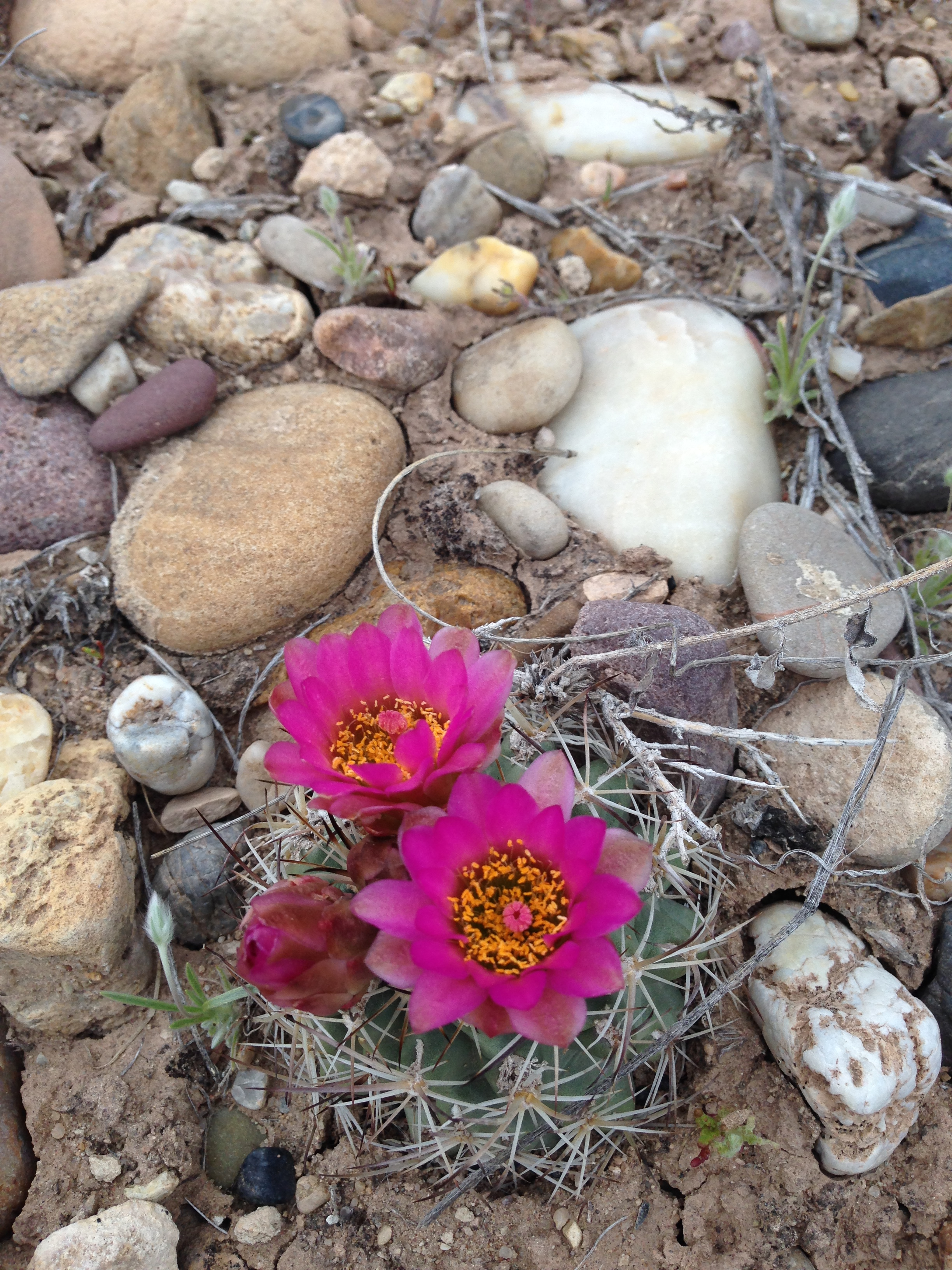 Sclerocactus wetlandicus is a rare species of cactus known by the common name Uinta Basin hookless cactus. It is endemic to Utah in the United States, where it is known only from the Uinta Basin. This plant is federally listed as a threatened species of the United States. Learn more about our conservation efforts: Photo Credit: Grant Young